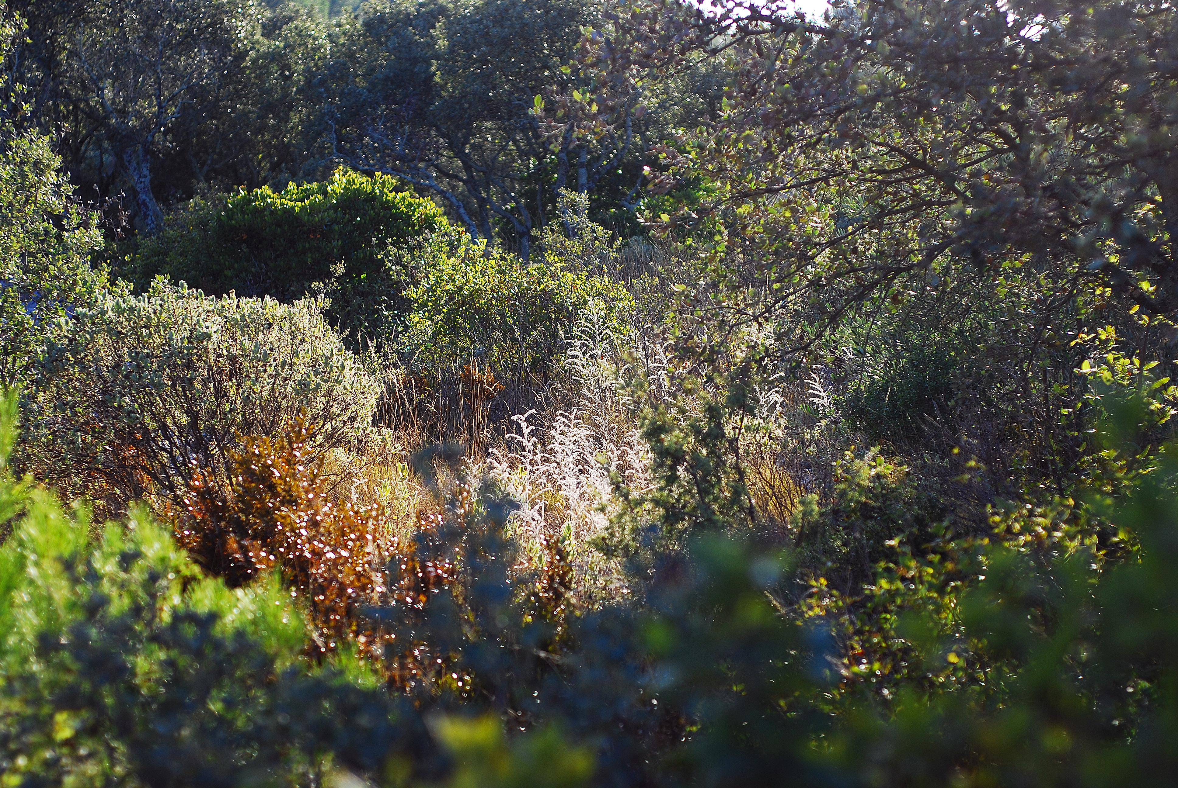 Garrigue is a type of low, soft-leaved scrubland found on limestone soils around the Mediterranean Basin, generally near the seacoast, where the climate is ameliorated. Garrigue, which is a French term, is the most common term for such shrublands.